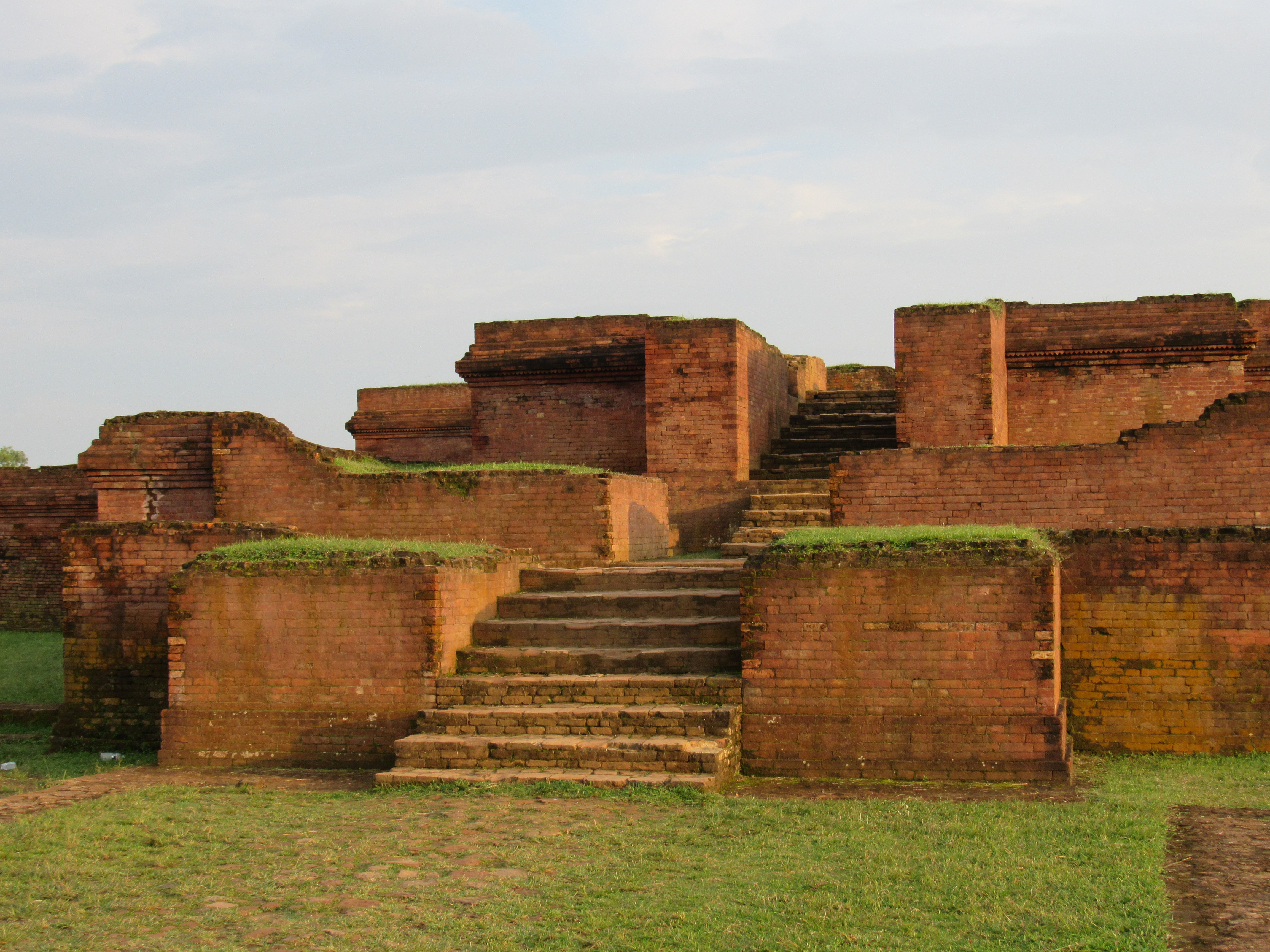 Shalvan Vihara, Mainamati 10 September 2016